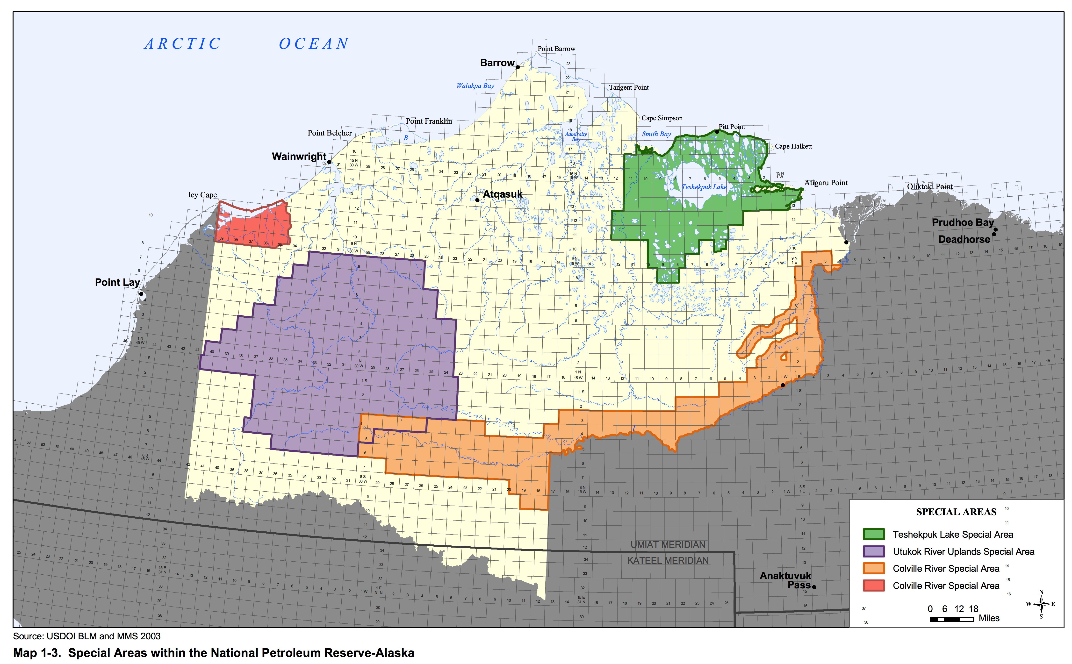 Shows special areas in the National Petroleum Reserve–Alaska